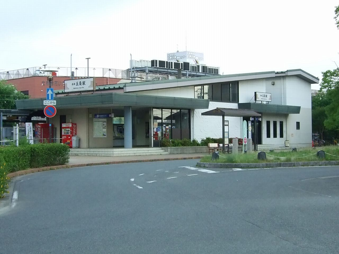 Nishitetsu Gojo Station on Nishitetsu Dazaifu Line.